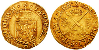 Scotland. James VI of Scotland (James I of England). 1567-1625. AV Sword and Sceptre (Six Scottish Pounds) (5.01 g). Dated 1602. Crowned coat-of-arms Crossed sword and sceptre with crown and thistles; date below. Burns pg. 399, 3; SCBC 5460. VF, lightly toned.